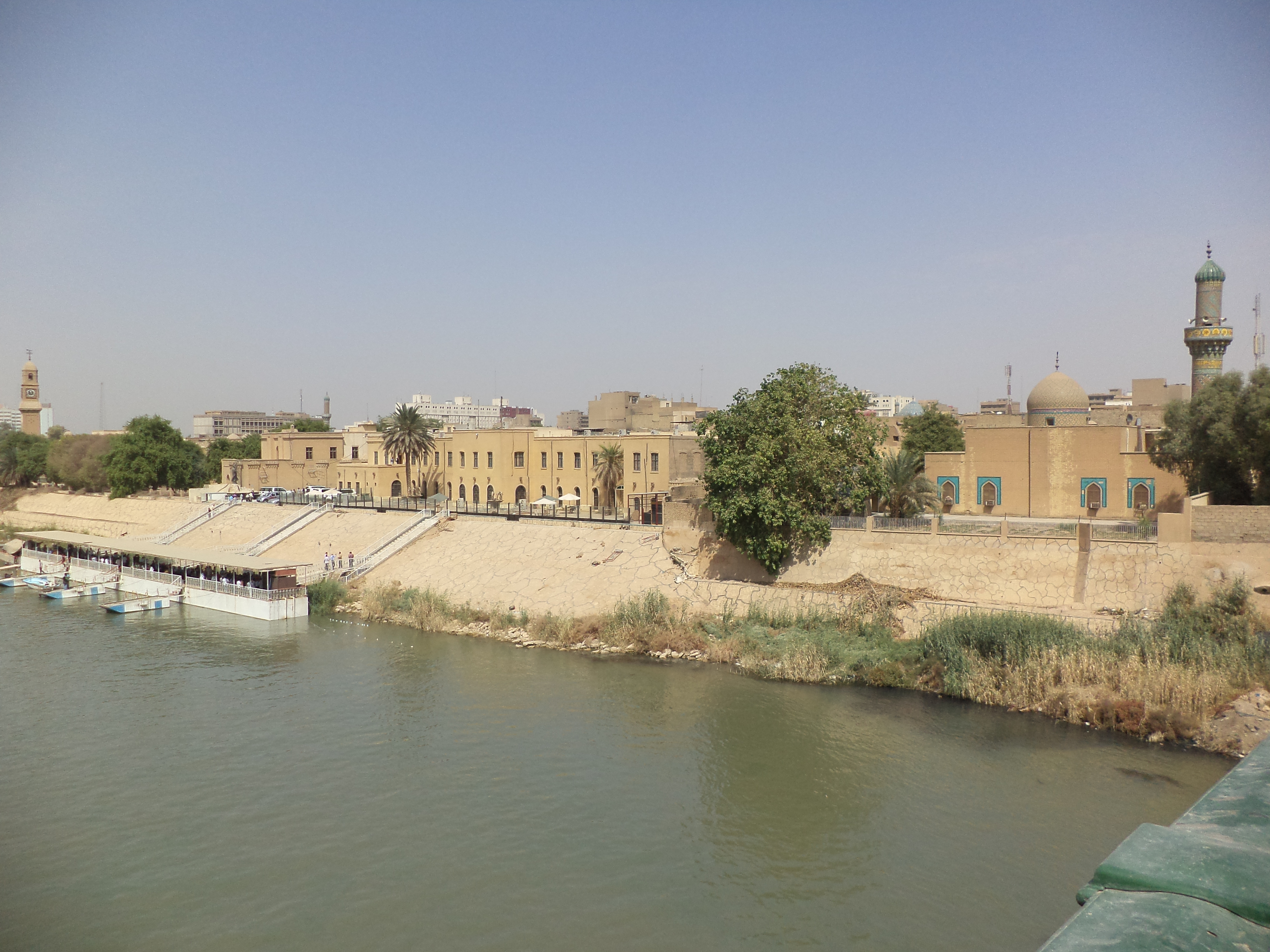 Al-Saray in Baghdad province